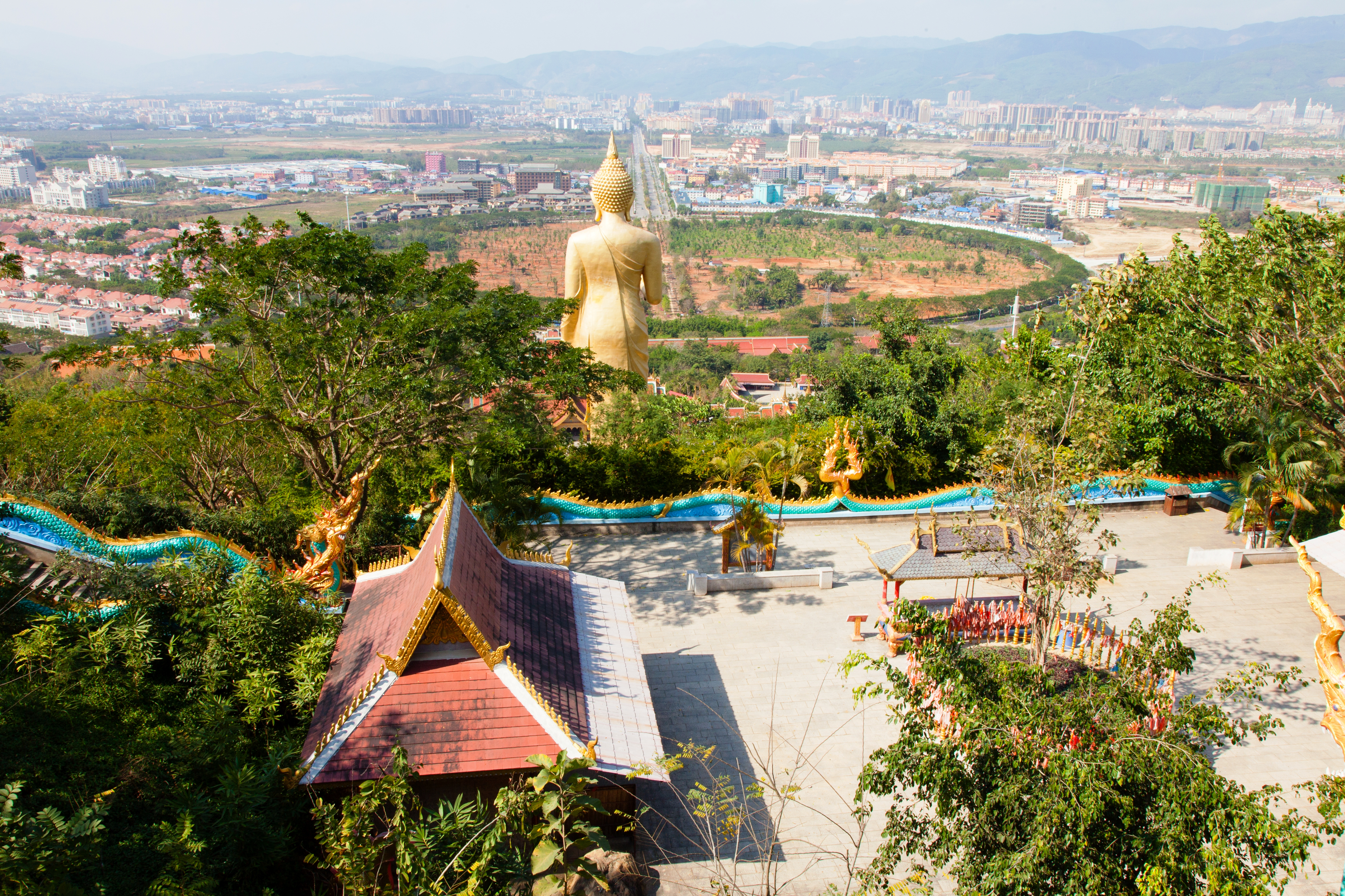 View fom the templearea over the City of Jinghong, Jinghong, Xishuangbanna, Yunnan, China.